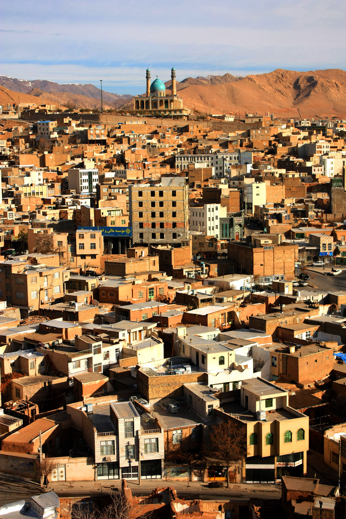 Mahdishahr - Semnan Province